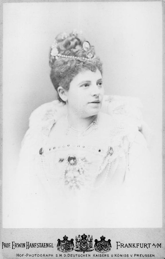 The portrait of German opera singer Marie Hanfstängl(1848—1917) made by her husband photographer Erwin Hanfstängl.